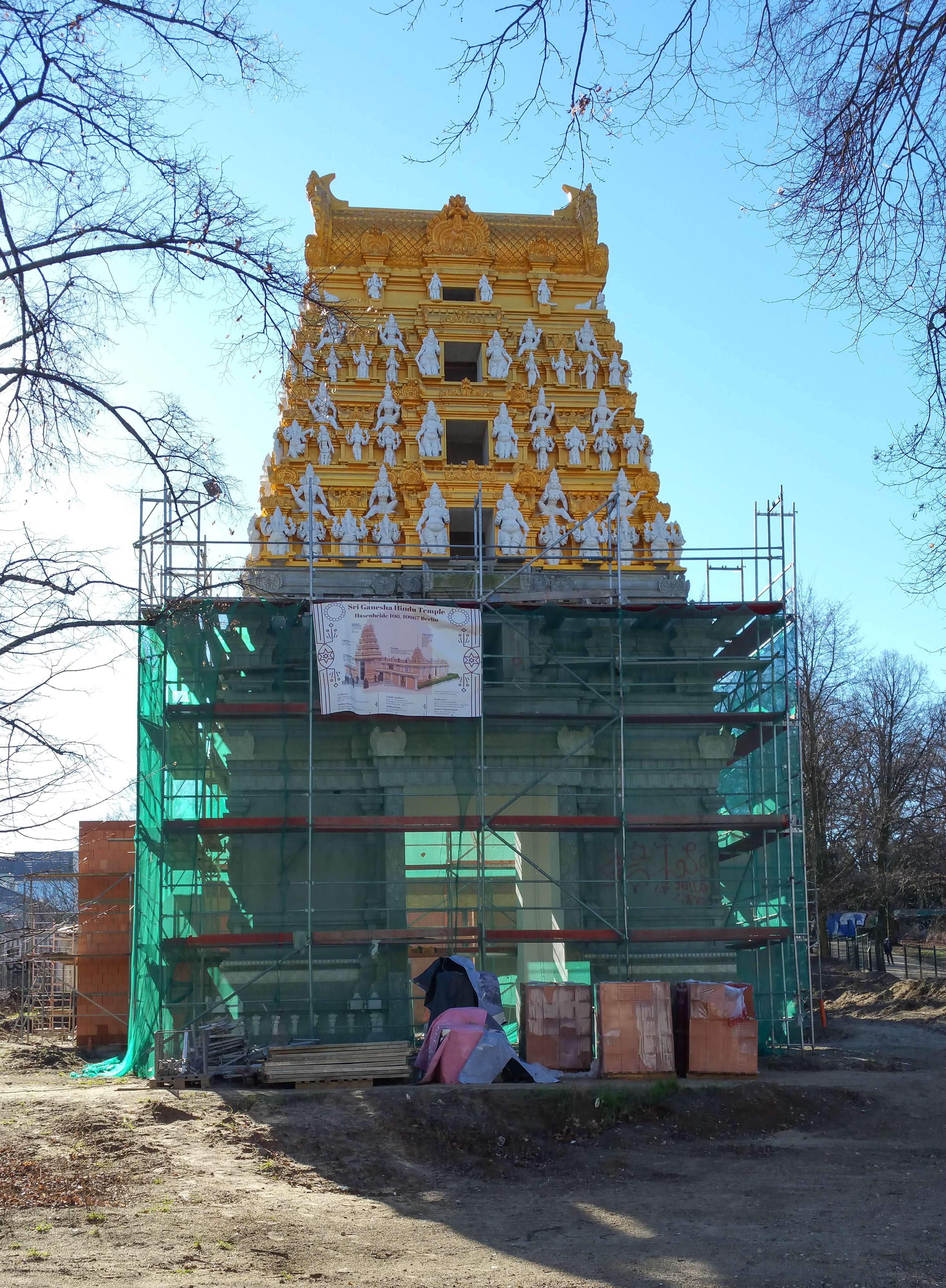 The Sri Ganesha Hindu Temple in Berlin's Volkspark Hasenheide. The foundation stone was laid in 2007. As of now , it is still under construction.